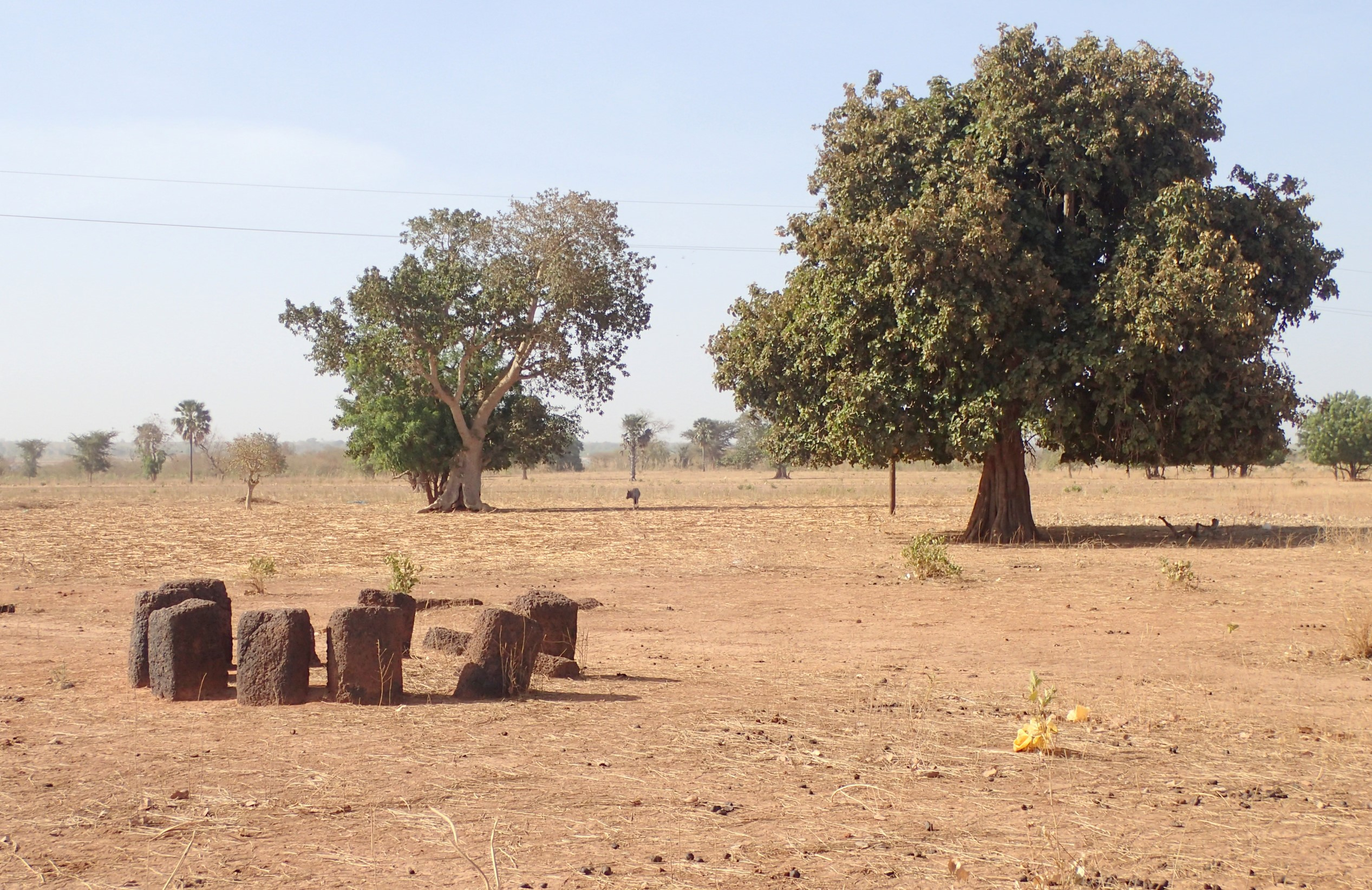 Stone circles near Kabakoto village, Senegal, Kaolack province.